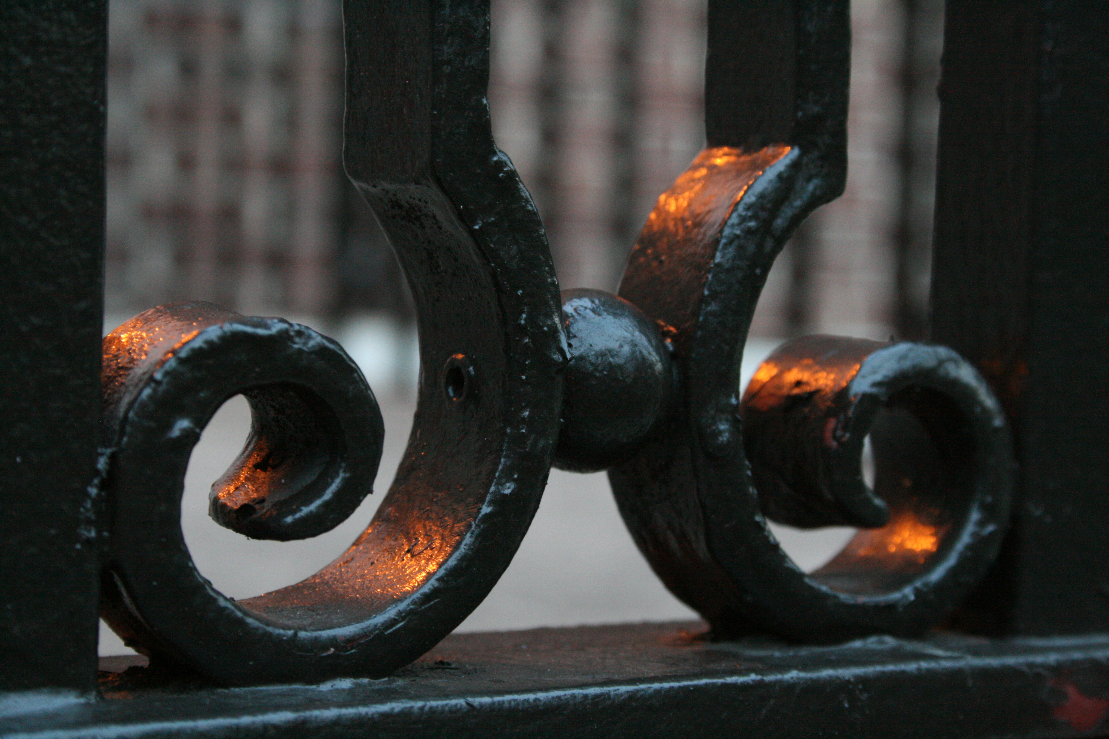 Curls adorning the bottom of a wrought iron railing on Duke University's East Campus in Durham, North Carolina. Photograph taken at dusk. Note the specular highlights produced by the artificial illumination.